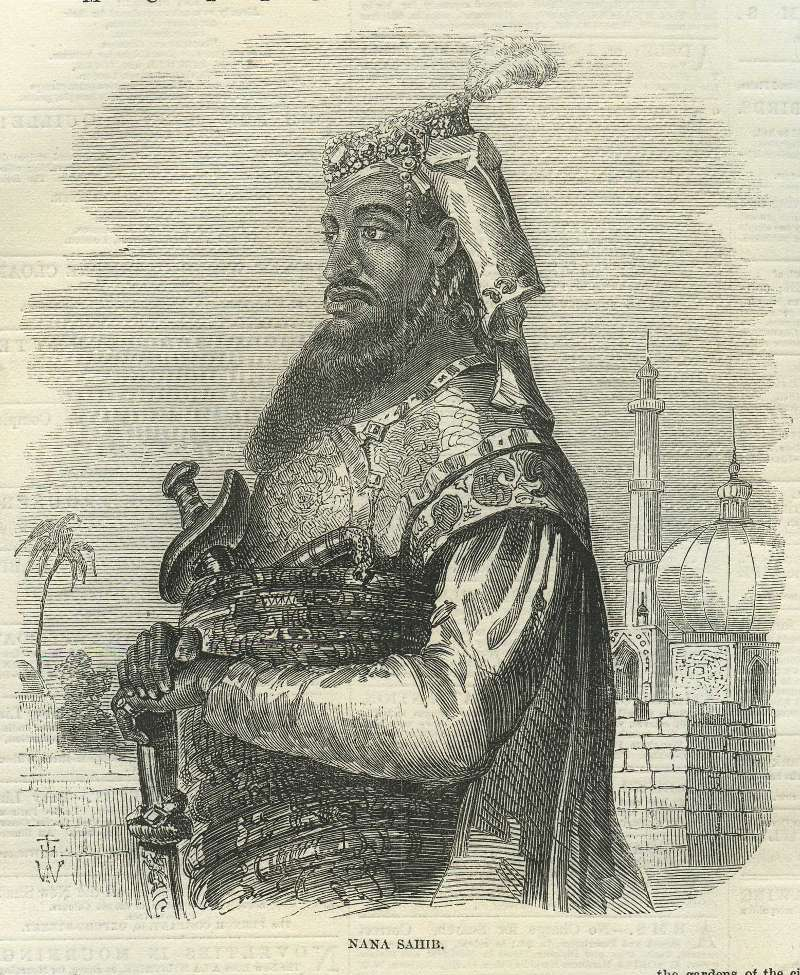 "Nana Sahib" (Dhundu Pant), one of the rebel Maratha chieftains; from the Illustrated London News, 1857